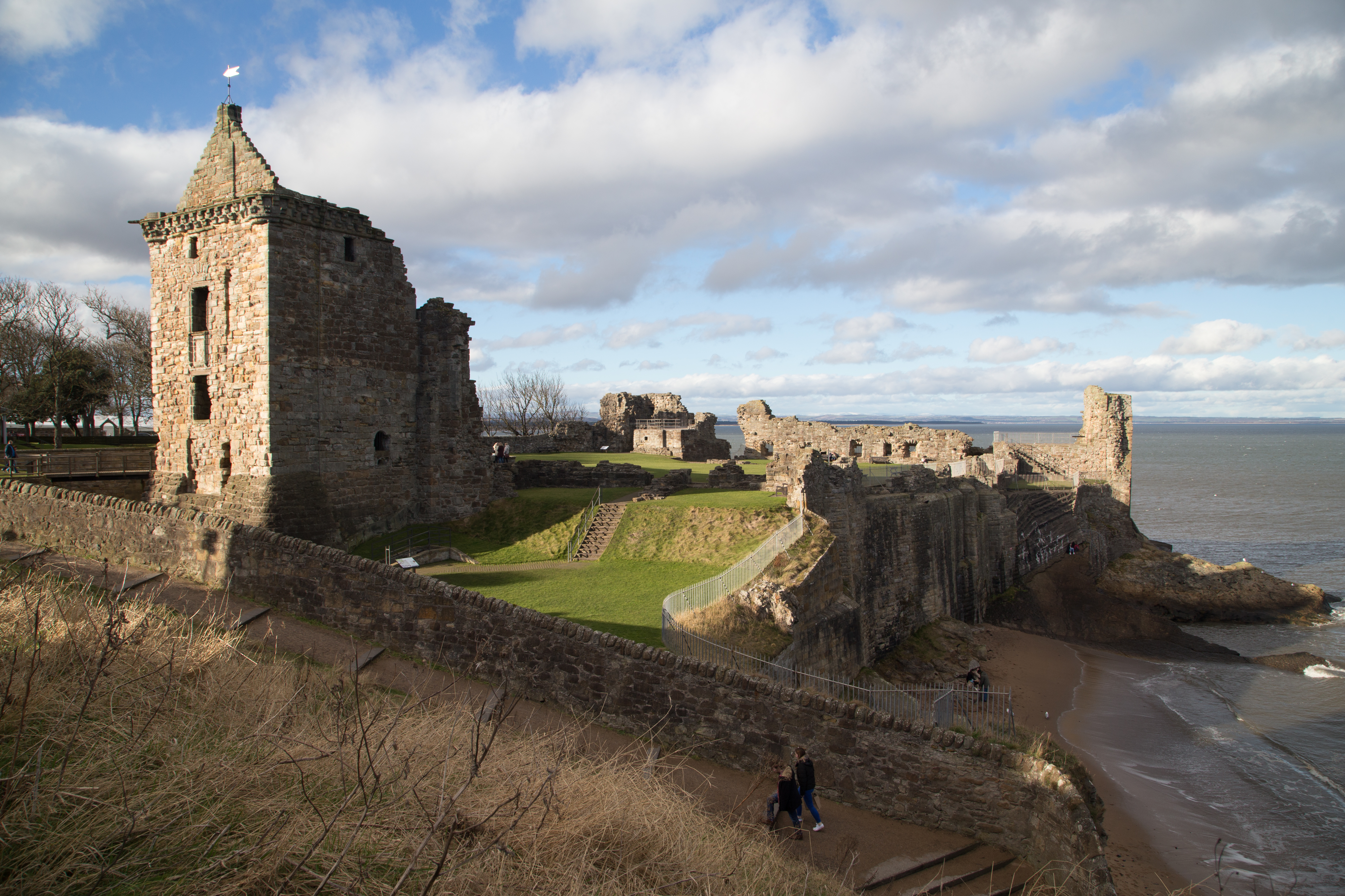 St Andrews Castle Wikidata has entry Q2287936 with data related to this item.